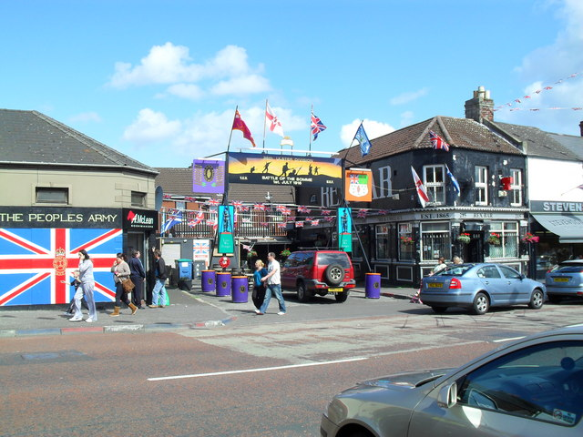 Somme Memorial, Moscow Street, Belfast This extravagant memorial to the Battle of the Somme - in which the 36th Ulster Division suffered heavy losses - is sited over what is left of Moscow Street on the Shankill Road. Moscow Street originally consisted of terraces leading up to Riga Street (note the Eastern European theme emerging) - the street has now vanished under Crimea Court, this being all that is left.